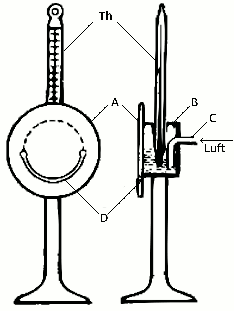 Dewpoint hygrometer according to Lambrecht